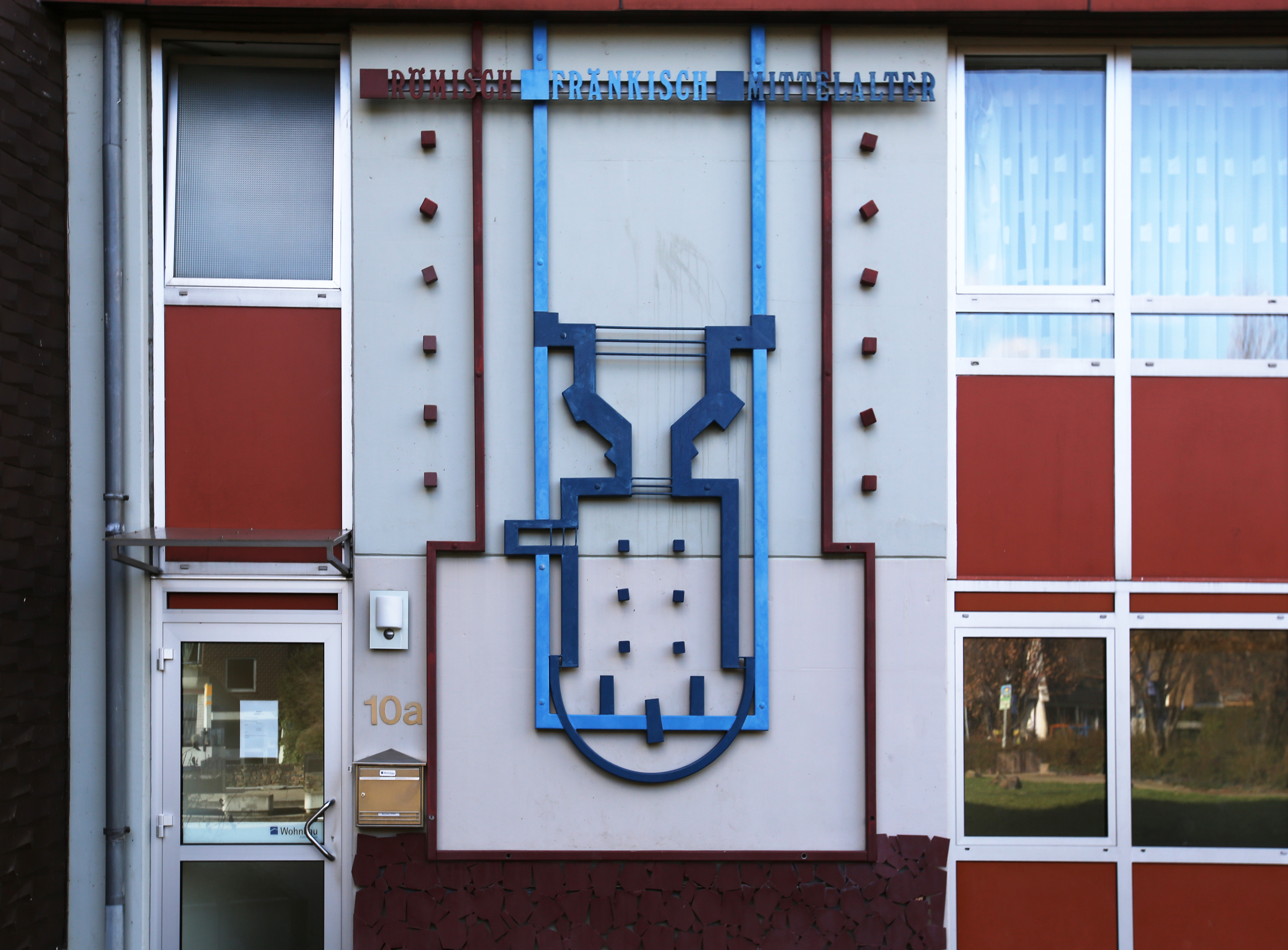 Ground plot as a iron embossment in Bonn-Castell